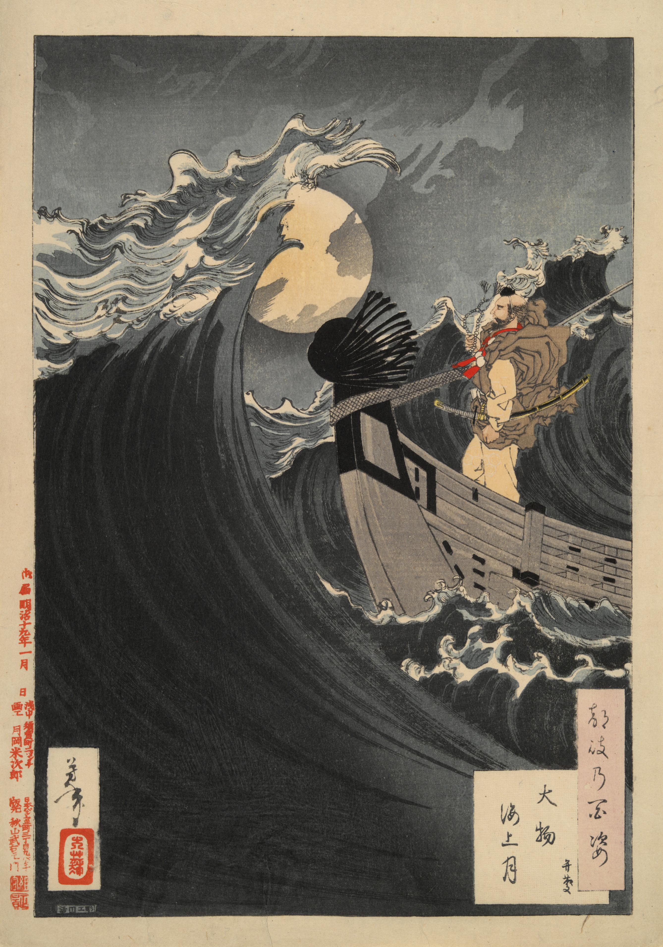 Benkei Calming the Waves at Daimotsu Bay : One Hundred Aspects of the Moon